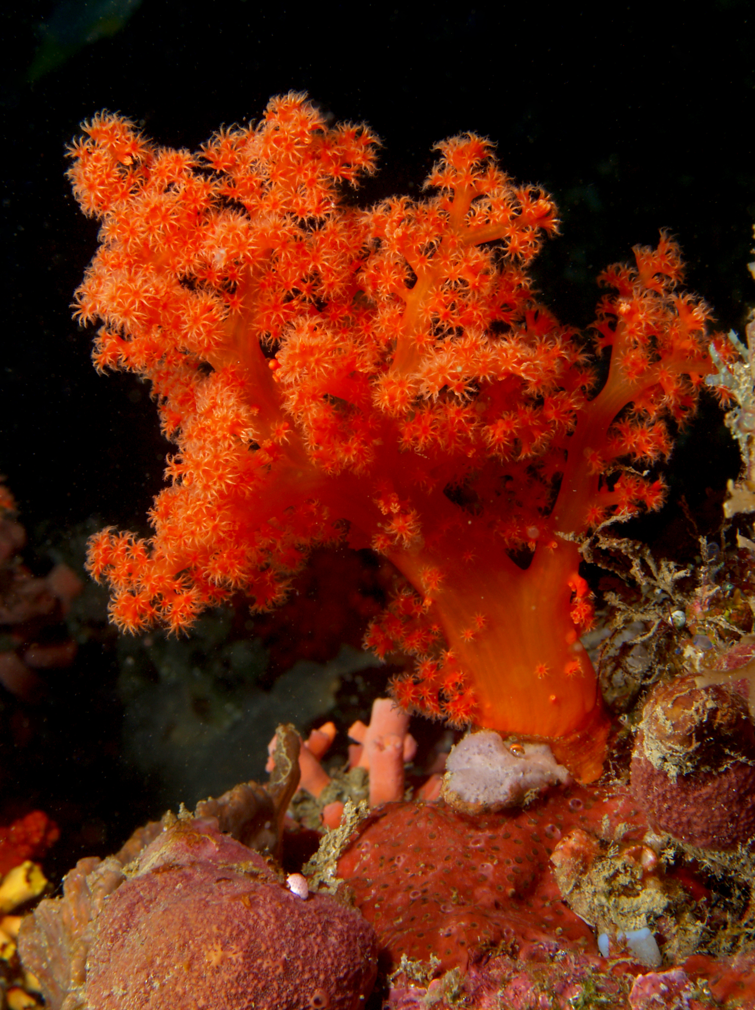 Scleronephthya sp. (Red soft coral with red polyps)